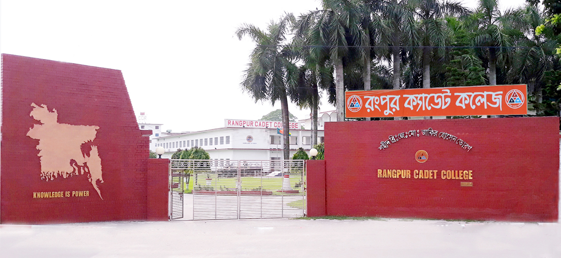 The main entrance of Rangpur Cadet College